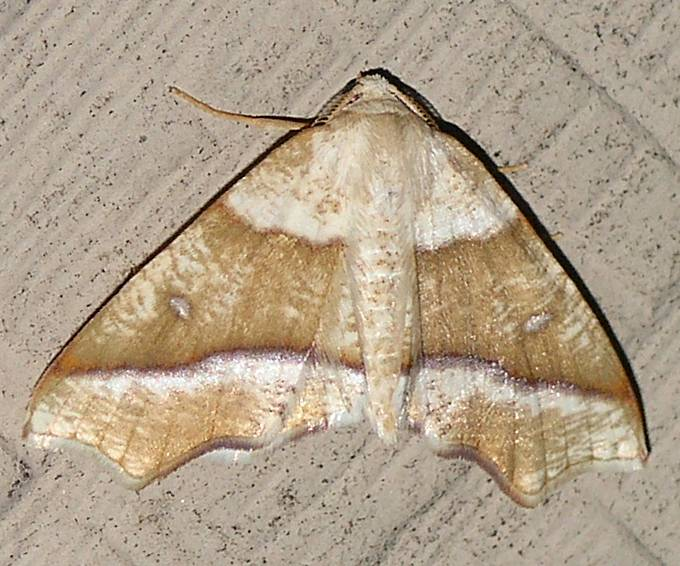 Plagodis alcoolaria. Ozark Mountains, Arkansas, USA.